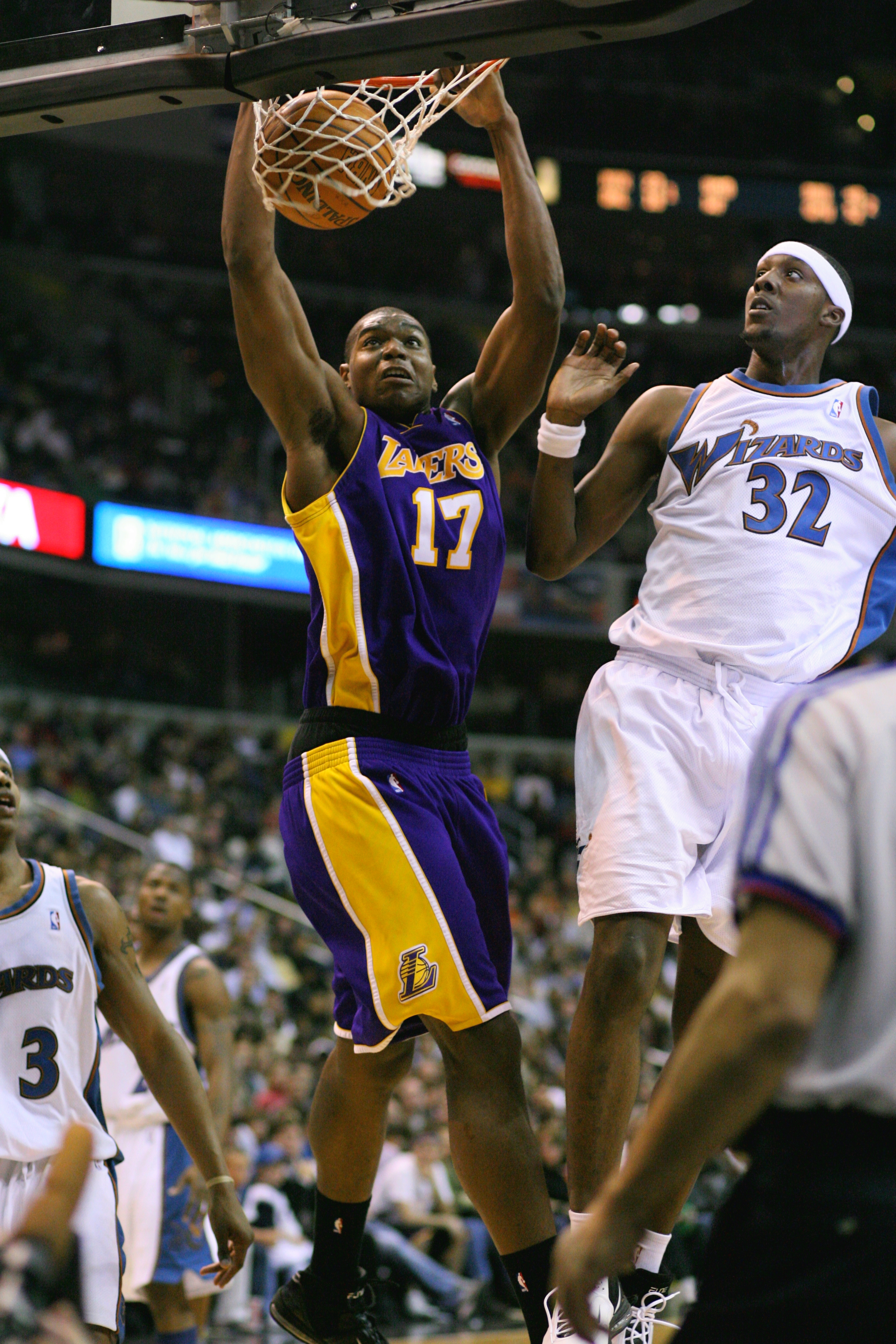 Andrew Bynum playing with the Los Angeles Lakers